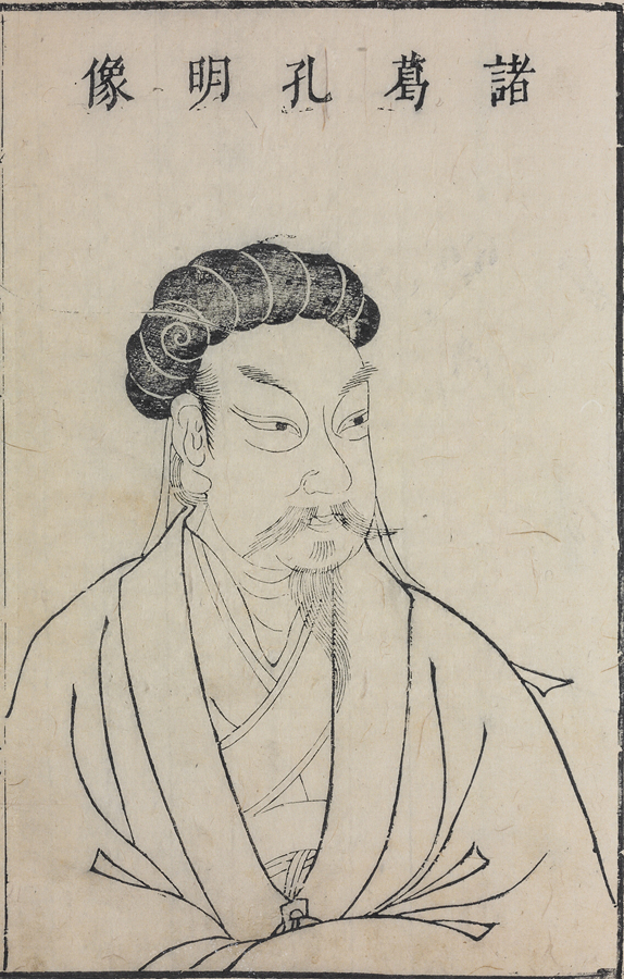 Depiction of Zhuge Liang (courtsey name Zhuge Kongming) in the Sancai Tuhui, a Ming imprint of the 37th year of the Wanli reign (1609) with handwritten supplements